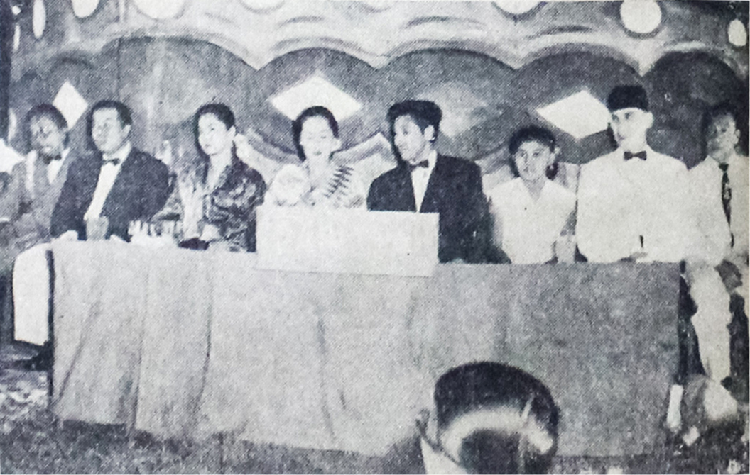 L–R: Poniman, Djamaluddin Malik, Dhalia, Fifi Young, AN Alcaff, Endang Kusdiningsih, A Hadi, and Awaluddin at the first Indonesian Film Festival